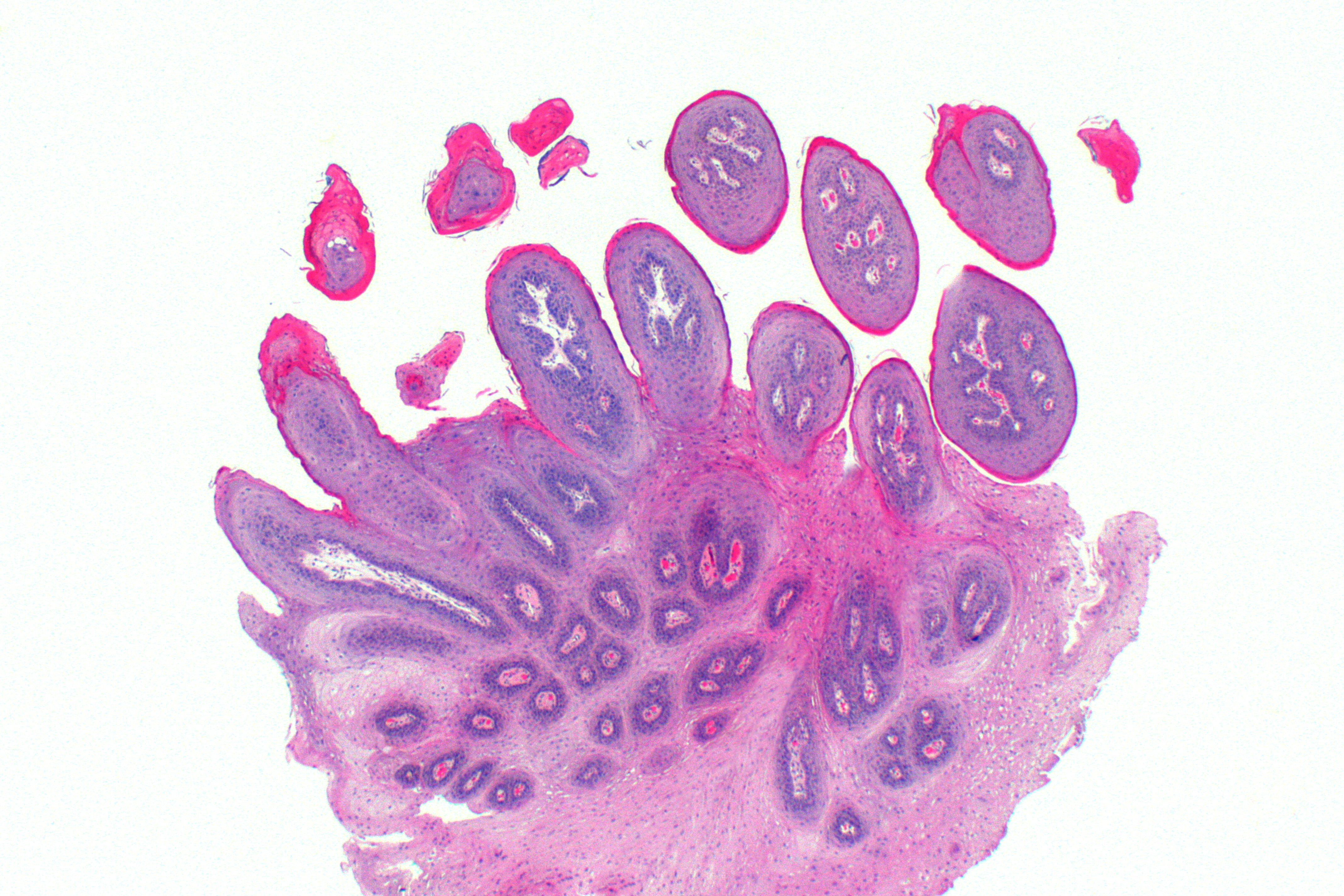 Micrograph of a squamous papilloma of the tongue. H&E stain. It is also known as squamous cell papilloma. Related images SP - very low mag. SP - low mag. SP - low mag. SP - intermed. mag. SP - high mag.